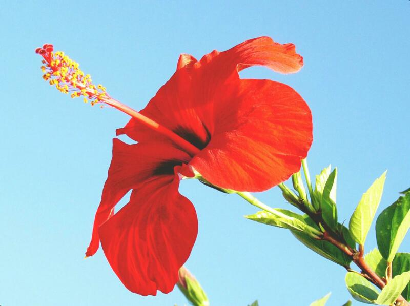 Para esta sexta-feira, tenho o grato prazer de vos oferecer esta linda flor de hibisco vermelho. Espero que tenham um Bom Dia ! For this friday, I have the grateful pleasure to offer this pretty flower to you of red hibisco. I wait that they have a Good Day!